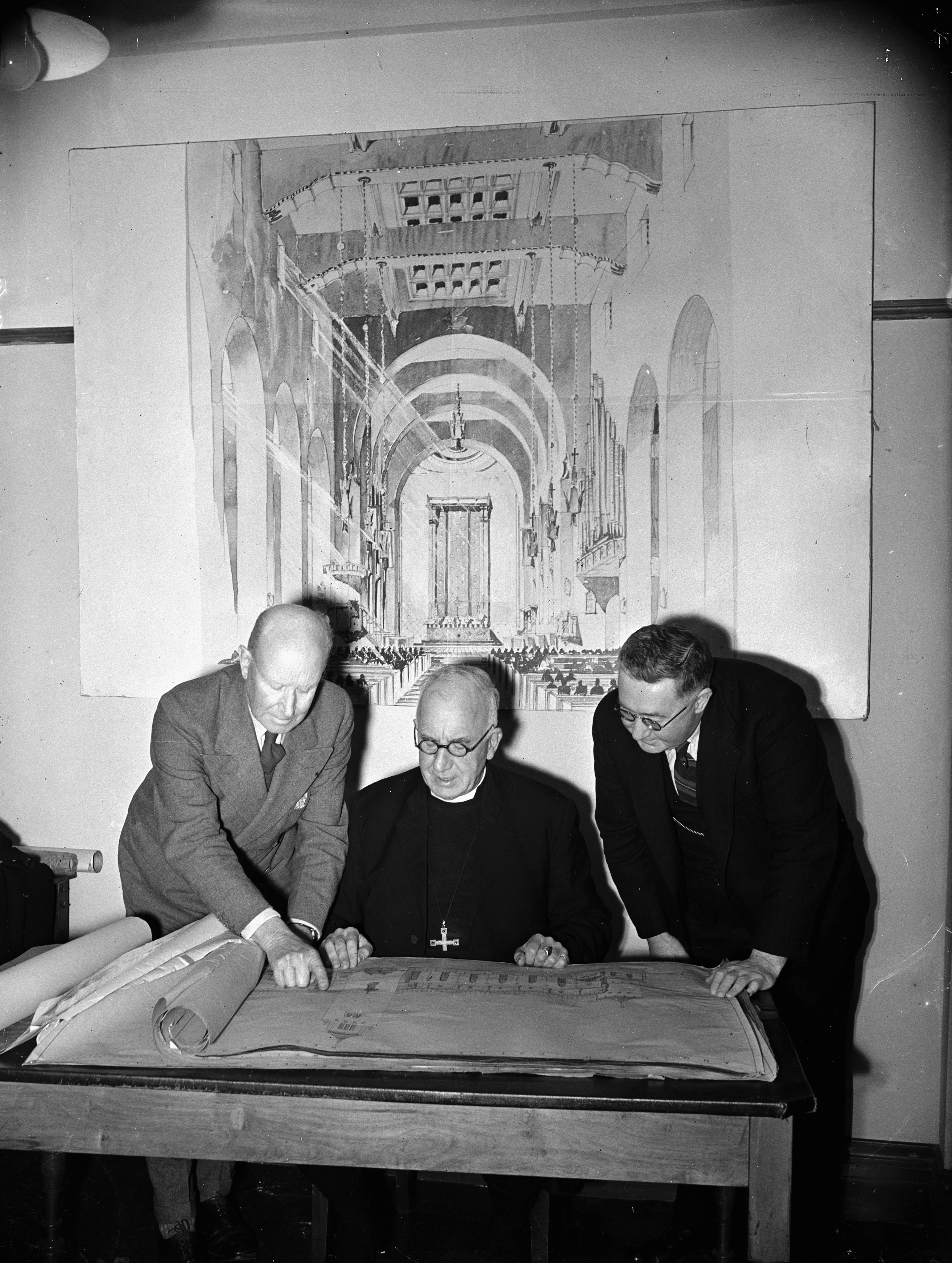 Mr Cecil Wood (architect, left), Rt Rev H St Barbe Holland (Bishop of Wellington, centre) and Mr Will Appleton (Mayor of Wellington) with plans for proposed Wellington Cathedral. The architect (Mr Cecil Wood, FFNZIA, ARIBA, of Christchurch) points out details of the elevation to the Bishop of Wellington and the Mayor. The appeal for 100,000 people to give a penny a day for a year is being promoted by two committees - one under the Bishop working through the Anglican Church, and one under the Mayor of Wellington working through all existing associations in the province.